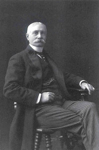 Depicted person: Francis Joseph Reitz – American banker and philanthropist